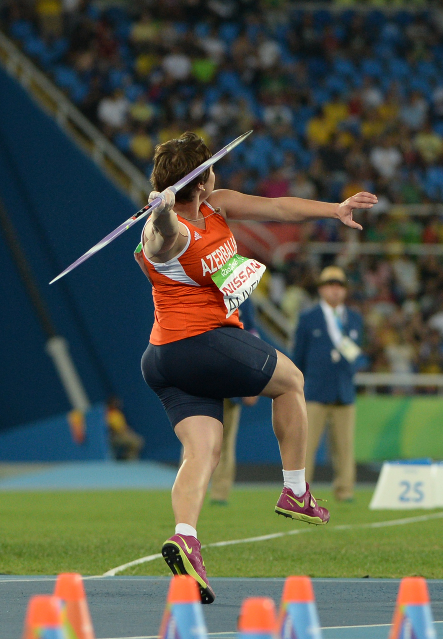 Irada Aliyeva. Athletics at the 2016 Summer Paralympics – Women's javelin throw F13